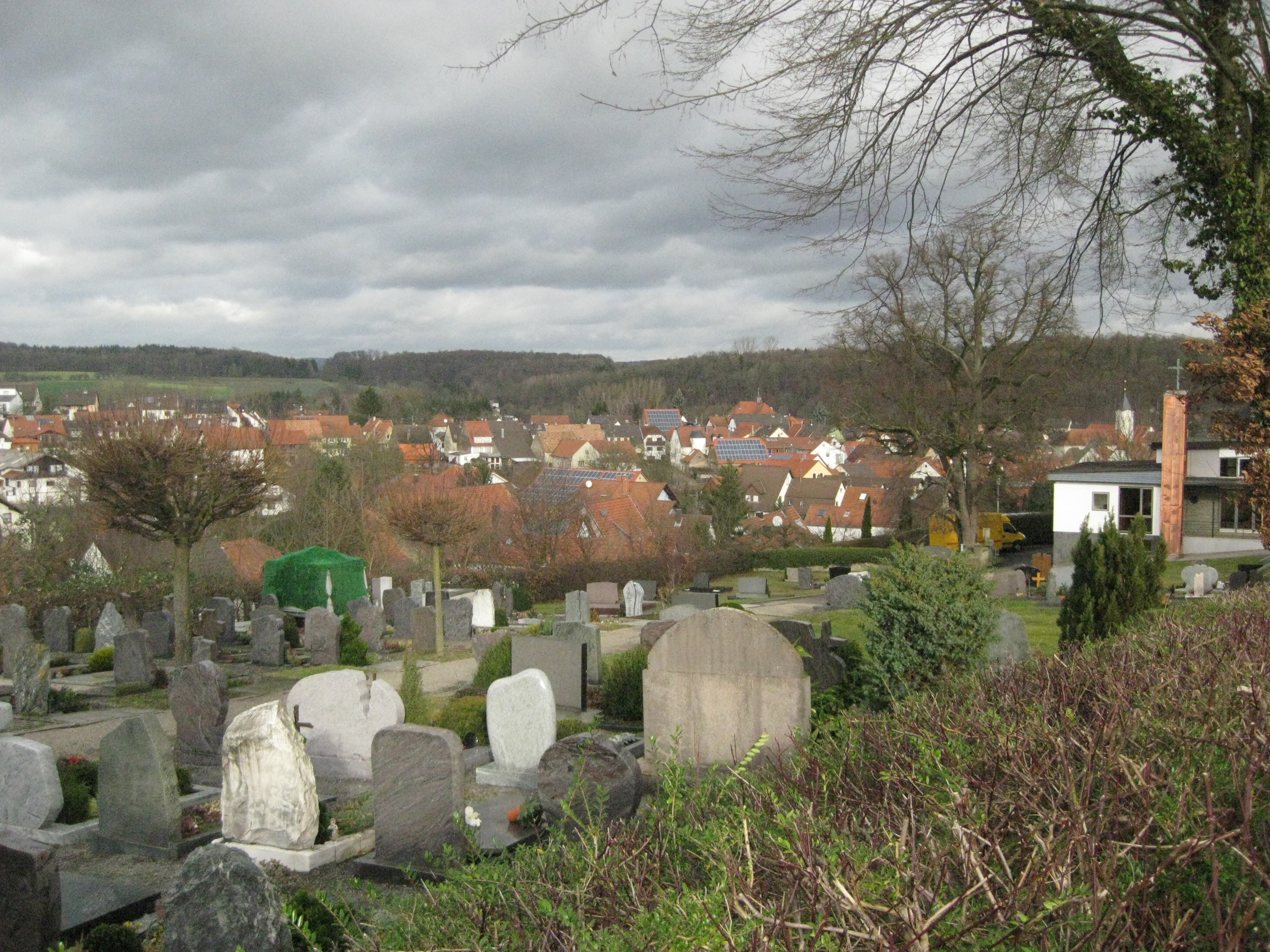 Friedhof in Eschelbronn